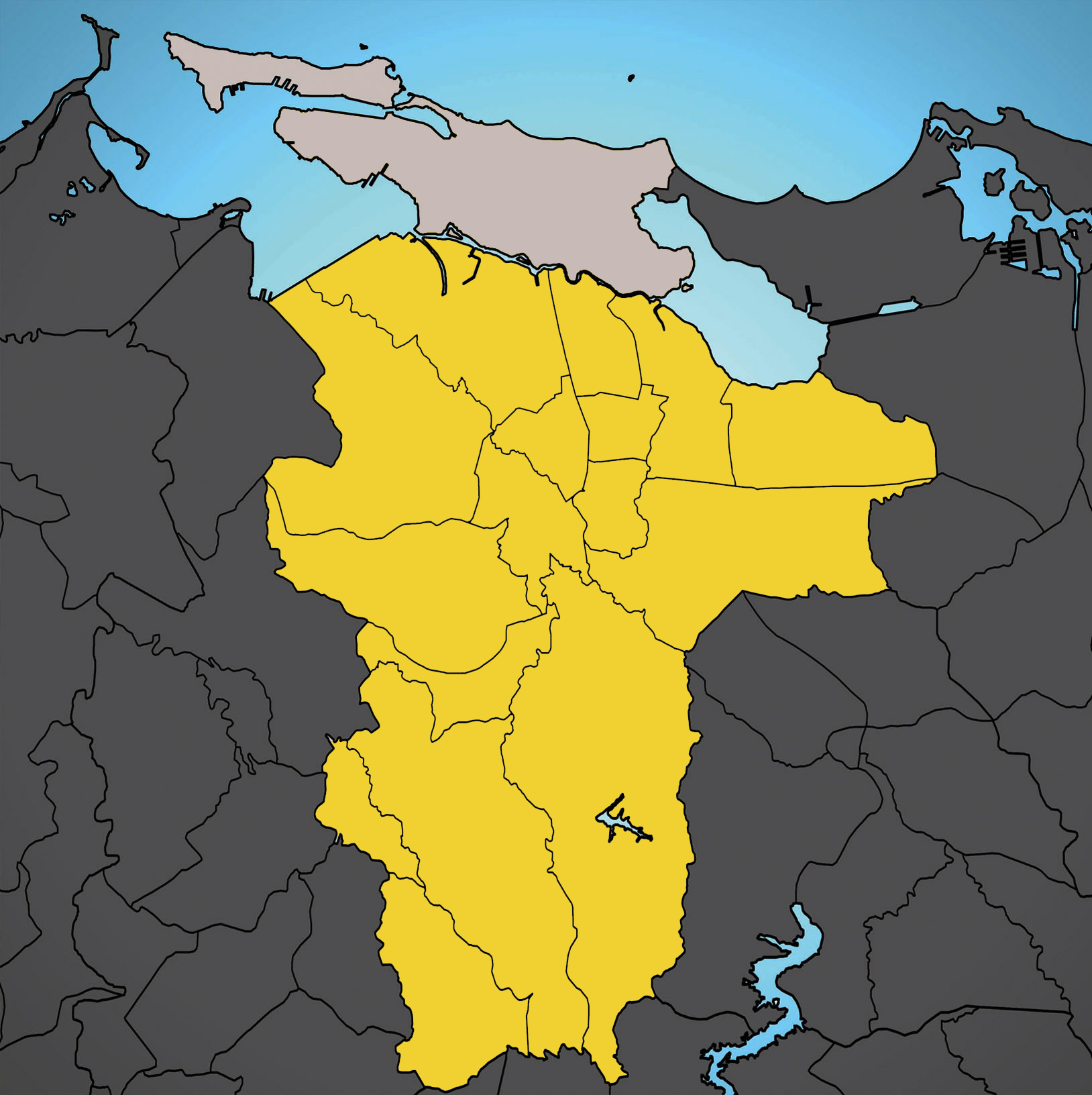 Map of the municipality of Rio Piedras which became part of the capital city of San Juan on July 1, 1951. The Río Piedras basin provides demarcations of the territory.